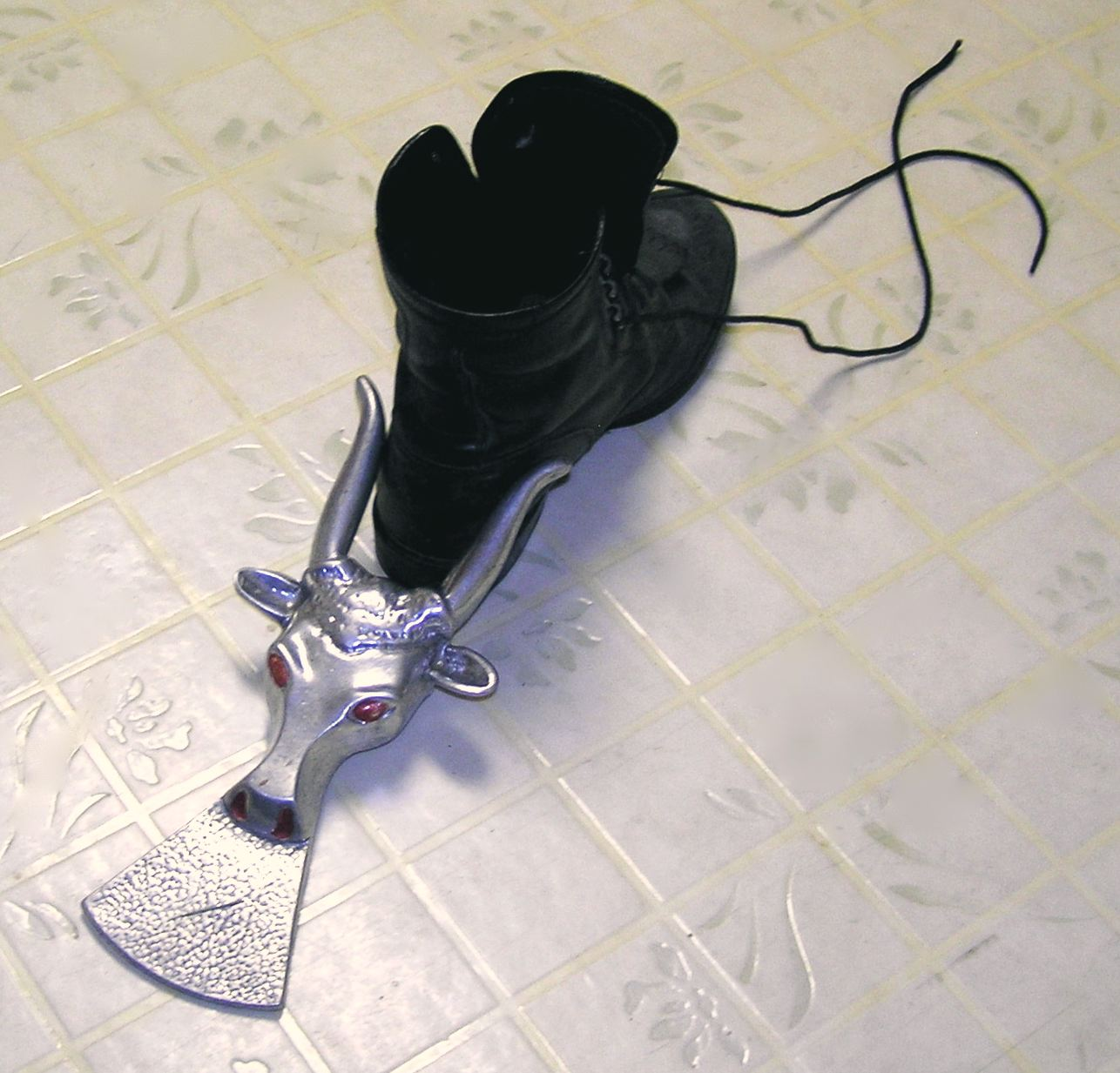 A novelty boot jack shaped like the head of a steer. Also a well-worn boot